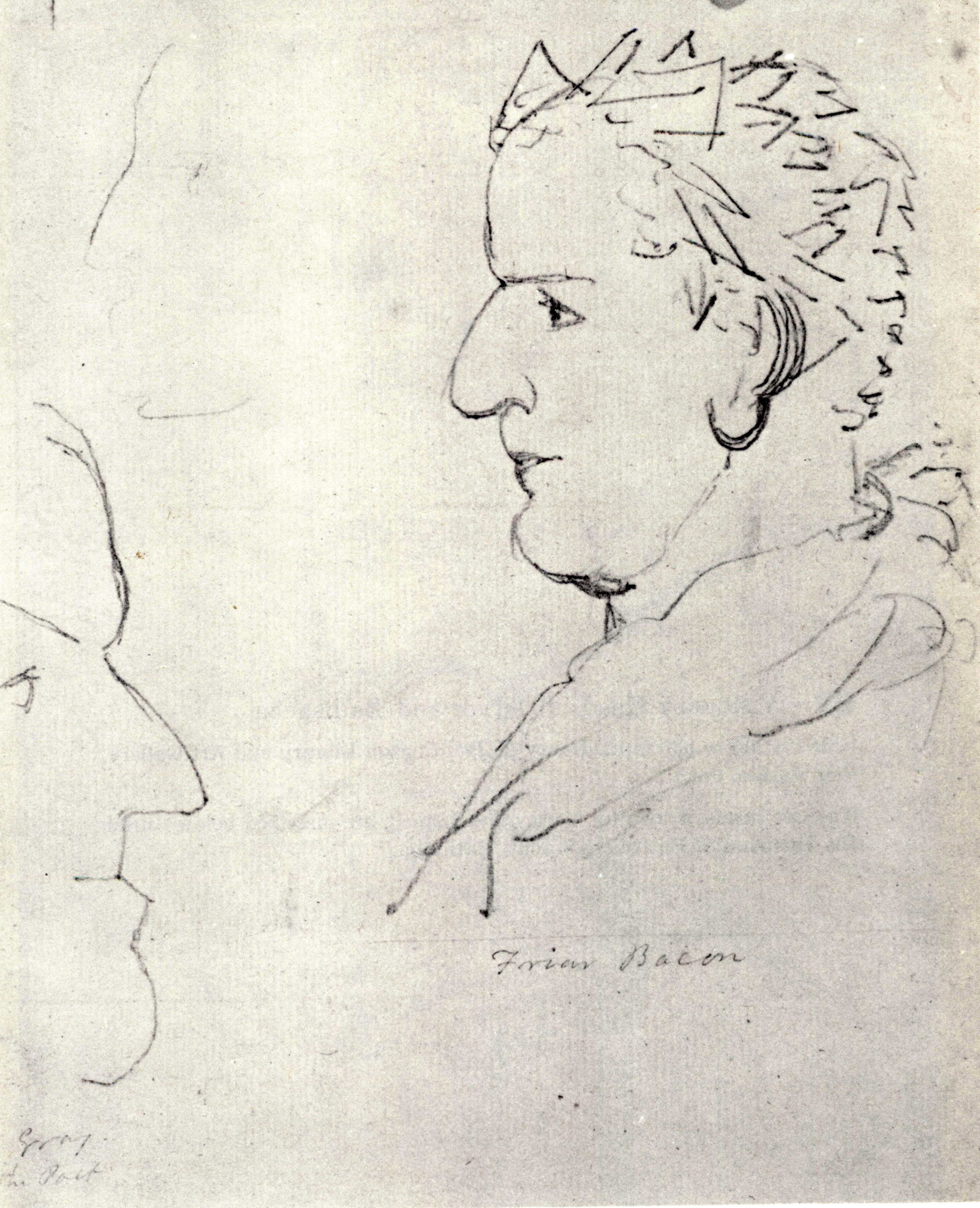 William Blake, Visionary Heads of Friar Roger Bacon and Poet Gray c 1820 197 x 162 mm